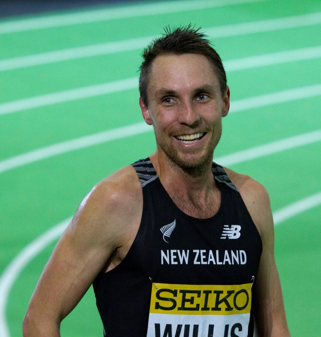 5167 willis